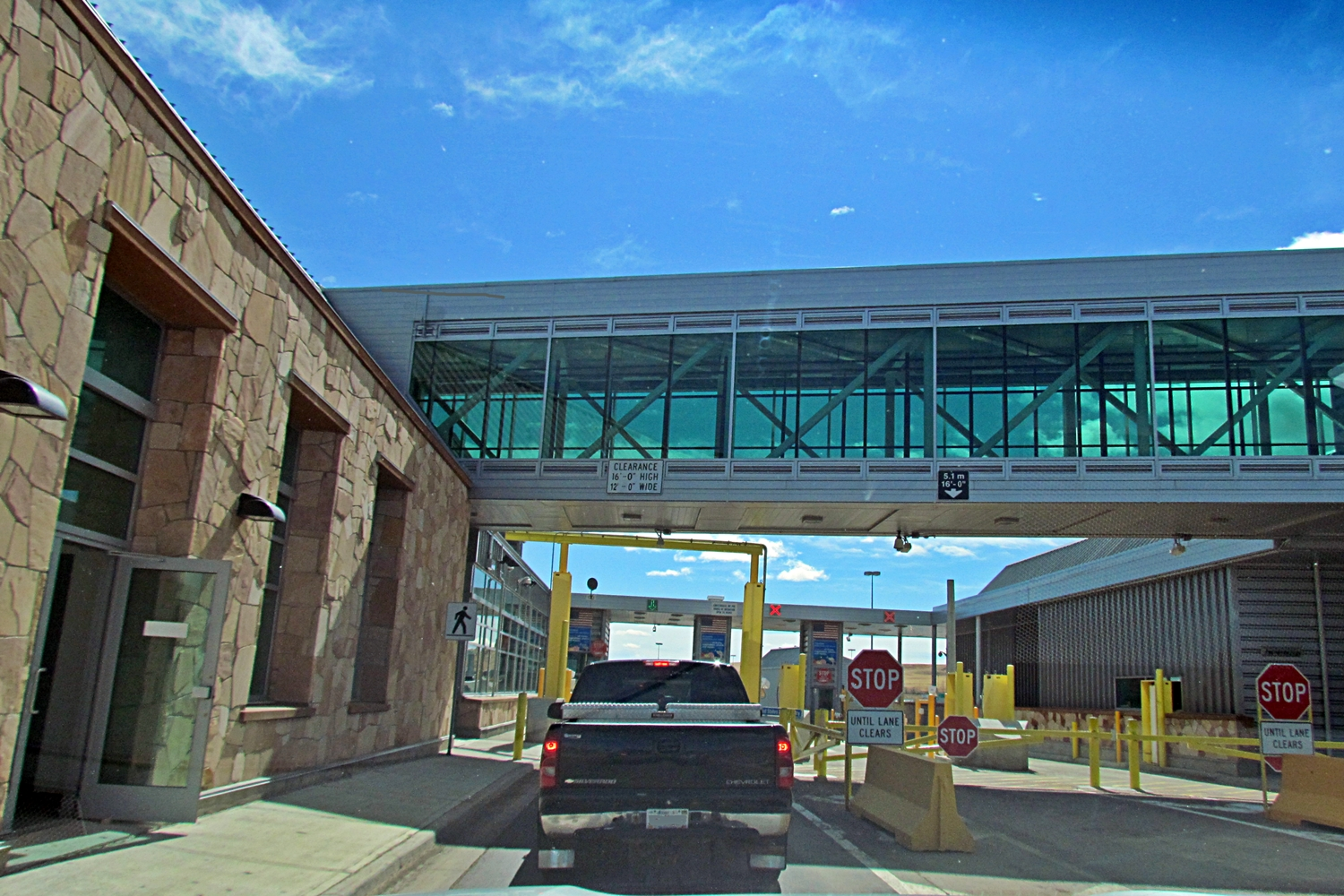 Coutts, Alberta border crossing into the USA In 2004, a joint border facility opened in Coutts, Alberta – Sweet Grass, Montana, housing both Canadian and American federal authorities. Coutts is a village in Alberta and the location of one of the busiest Canada – US border crossings in western Canada. It connects Highway 4 to Interstate 15, an important trade route (CANAMEX Corridor) between Alberta, American states along I-15, and Mexico. Source:Wikipedia